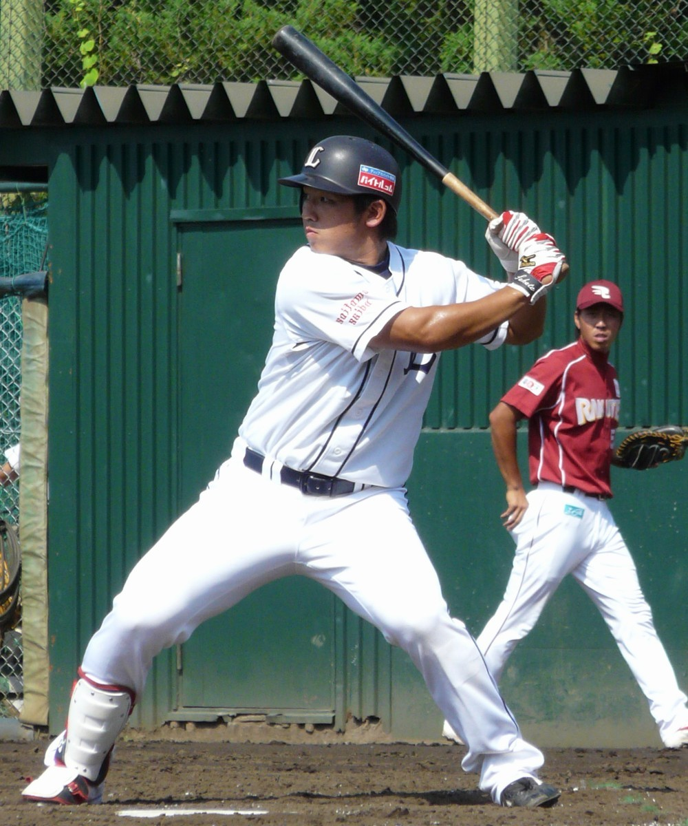 Ryo-Sakata